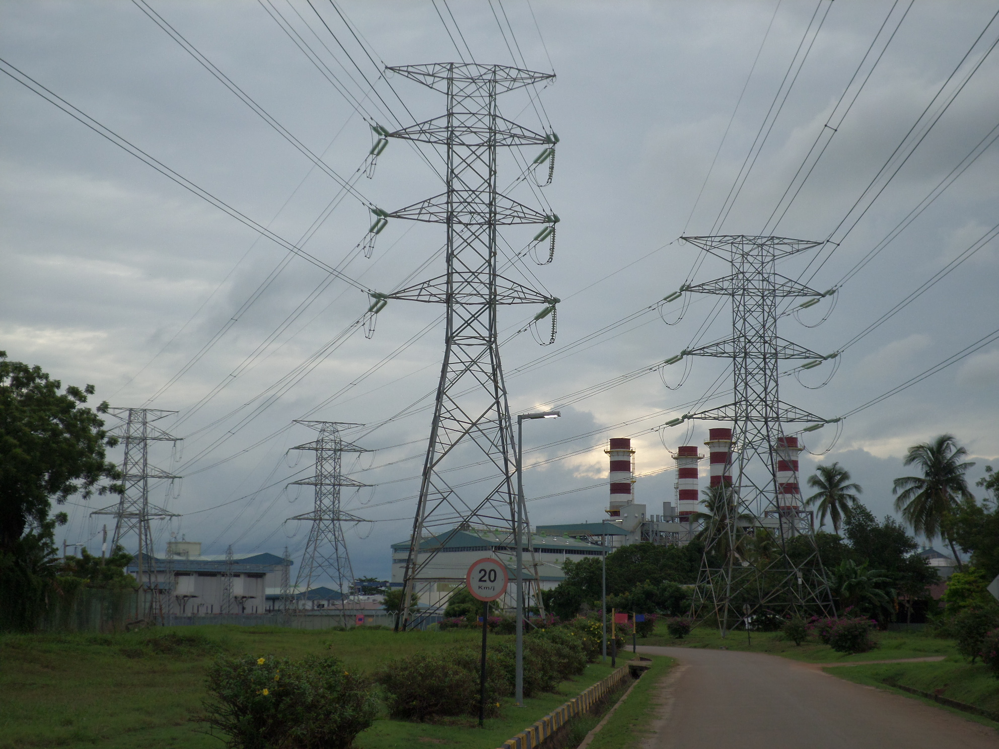 Tanjung Kling Power Station, Tanjung Kling, Malacca, MalaysiaBahasa Melayu: Stesen Janalektrik Tanjung Kling, Tanjung Kling, Melaka, Malaysia